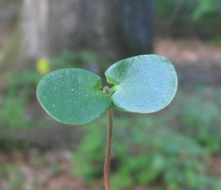 Two cotyledons of the Carpinus betulus tree